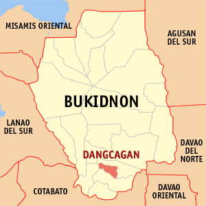 Map of the Bukidnon showing the location of Dangcagan